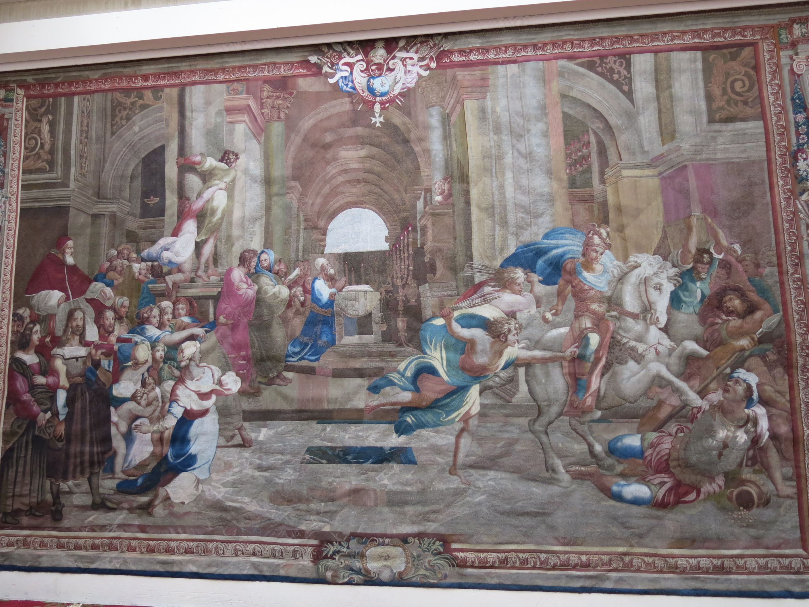 Tapestry Expulsion of Heliodorus from the Temple in the hall of festivities of the palais de l'Élysée (Paris, France).